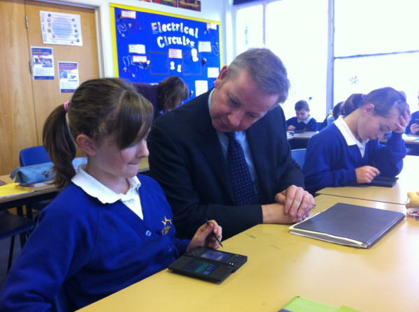 Education minister Michael Gove at Sprites Primary in Ipswich. Earlier today he attended Cabinet which was held at Adastral Park at BT.